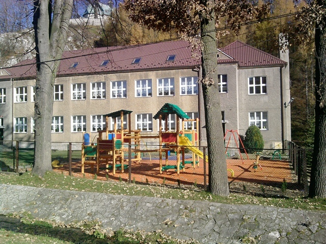 School in Sąspów